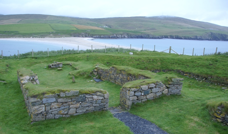 St Ninian's Chapel, St Ninian's Isle, Shetland, Scotland